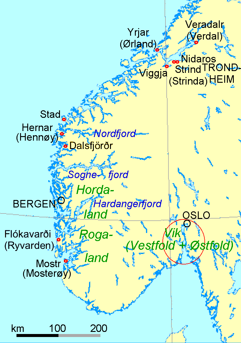 Starting and target places of Viking ocean navigation.